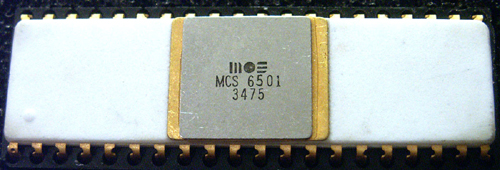 The MOS Technology 6501 microprocessor was pin compatible with the Motorola 6800. Introduced in September 1975 and removed from market in March 1976 to settle a lawsuit with Motorola. The 3475 date code indicates this chip was produced in week 34 of 1975, approximately August 27, 1975.